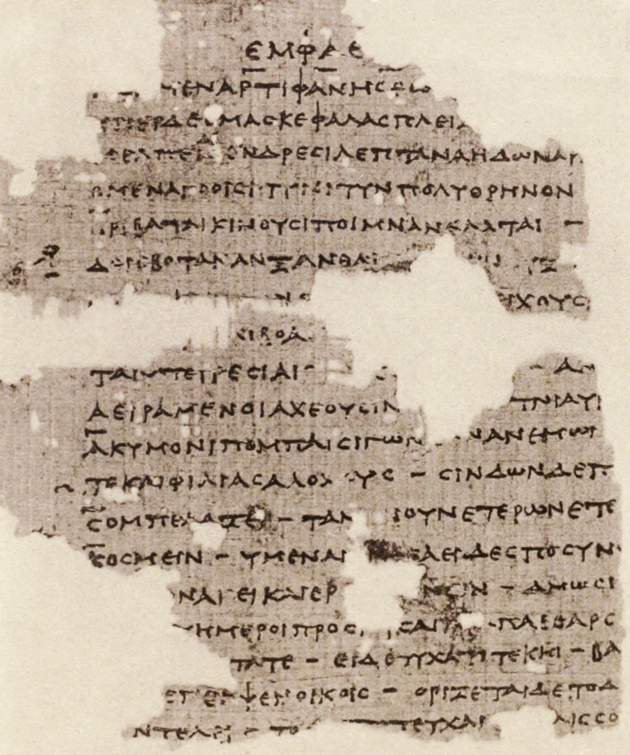 P.Berol. inv. 9771: a fragment of Euripides' Phaethon